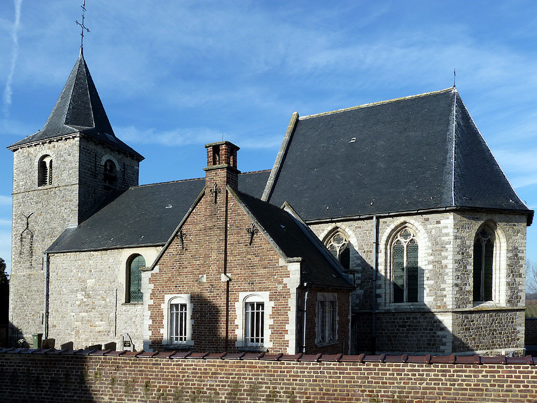 Saint Margareth church Houtem